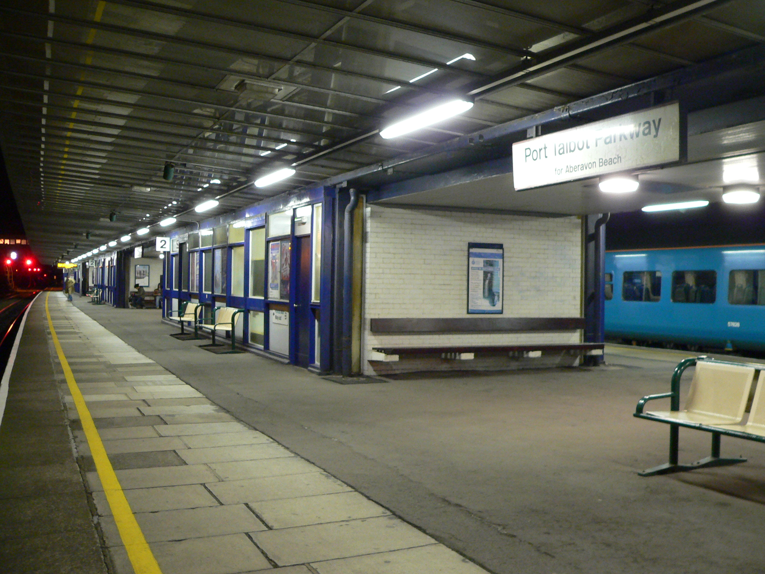 Platform 2 at Port Talbot Parkway railway station is on the north-east side of the island platform and is served by eastbound trains towards Bridgend, Cardiff, Bristol and London.